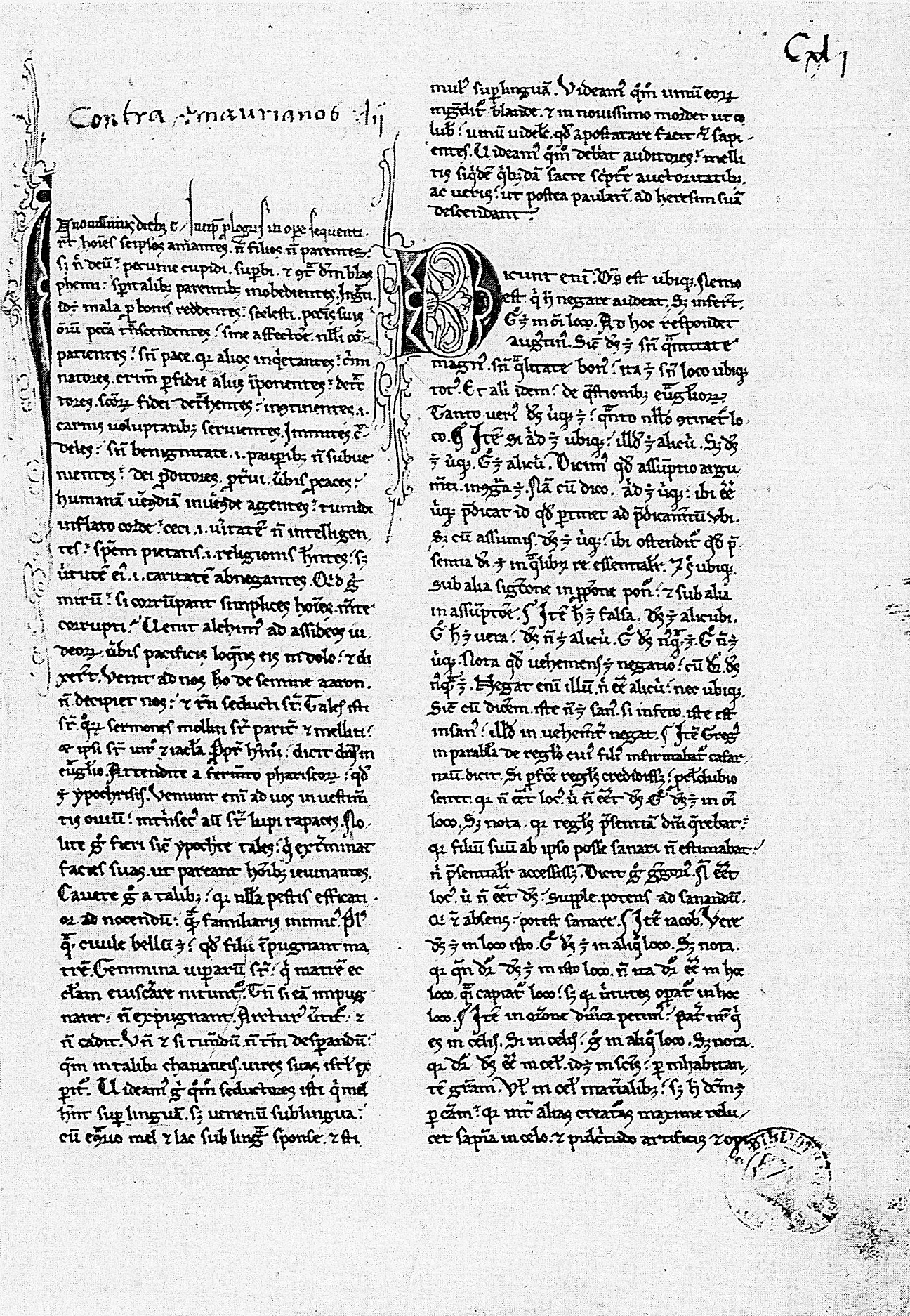 Contra Amaurianos, Troyes, Bibliothèque municipale, 1301, f. 141r.